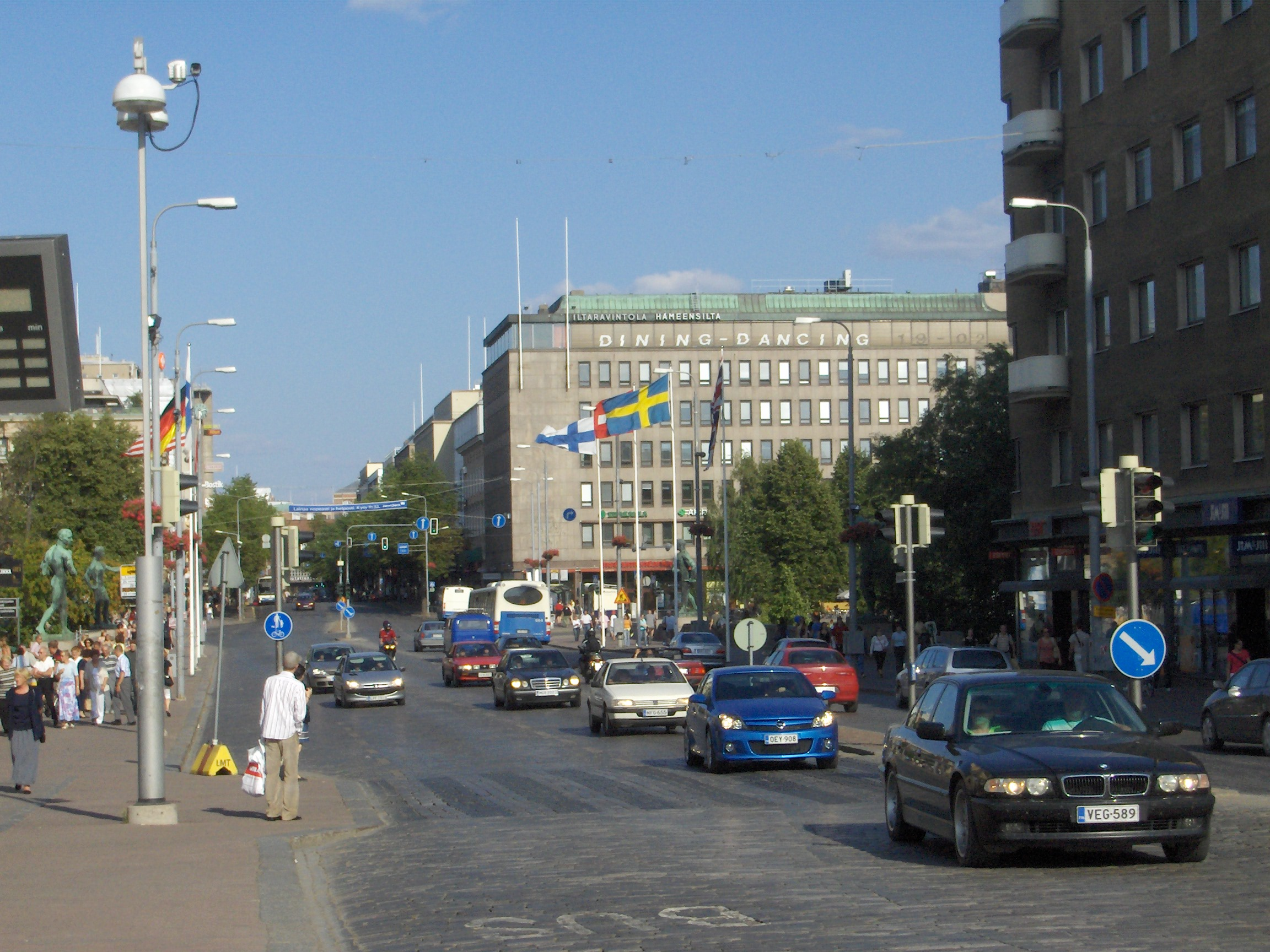 Hämeenkatu, the main street of Tampere